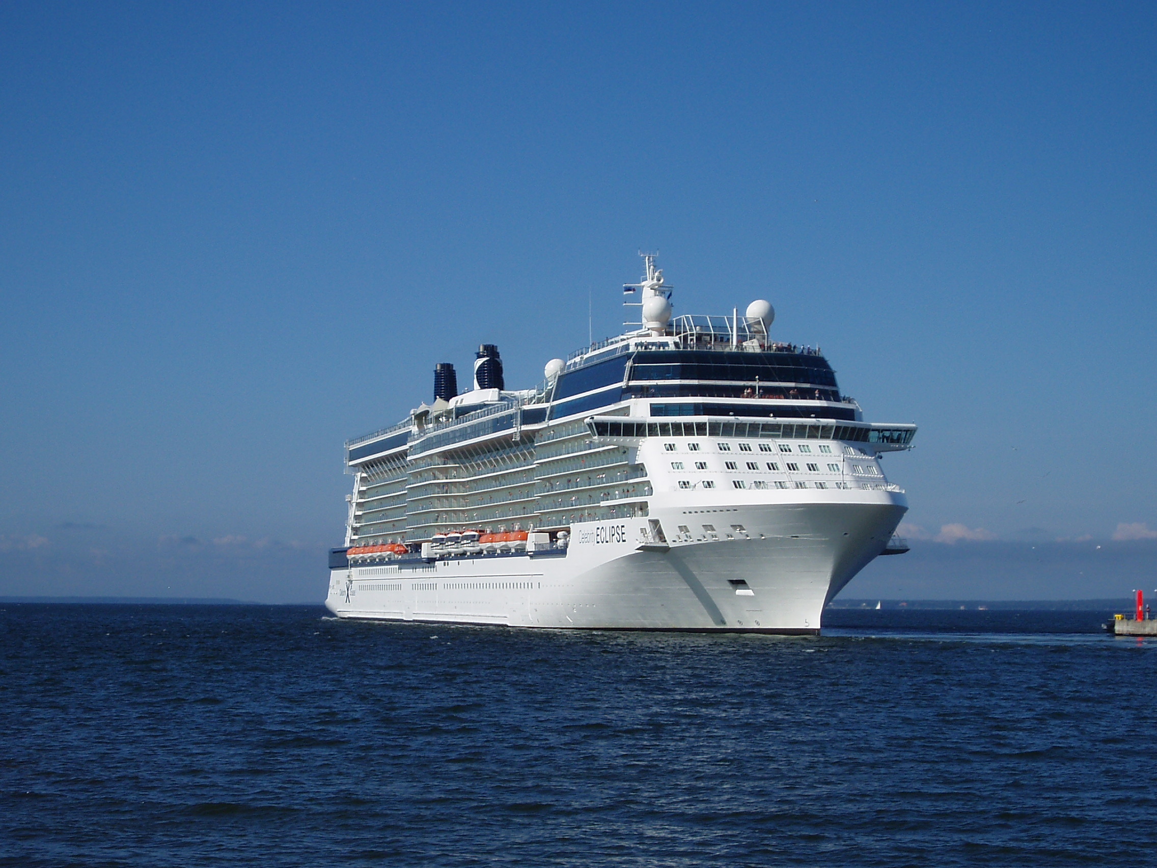 Cruise ship Celebrity Eclipse departing Tallinn, June 26, 2011